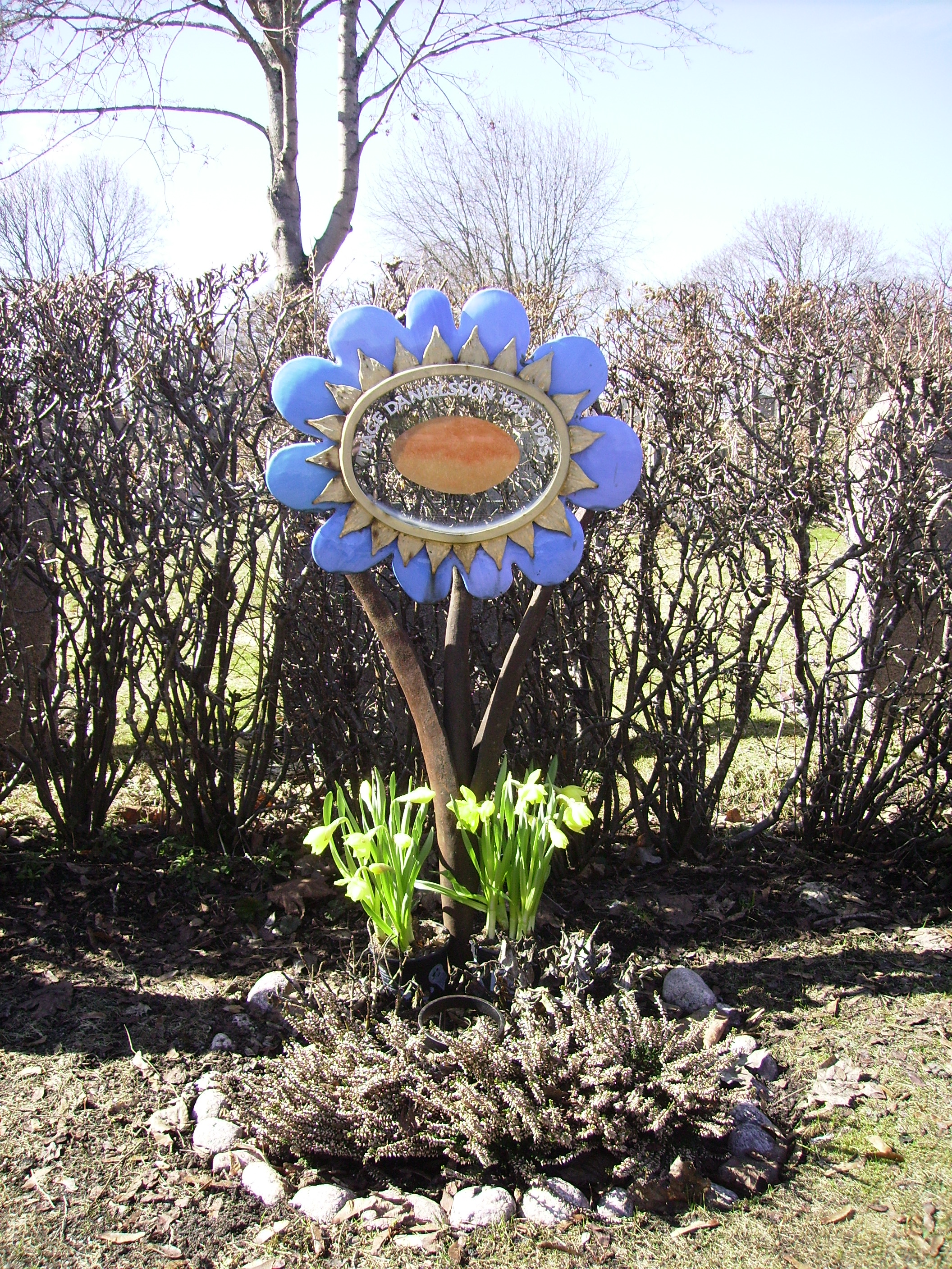 Picture of Tage Danielsson's grave at Lidingö kyrkogård